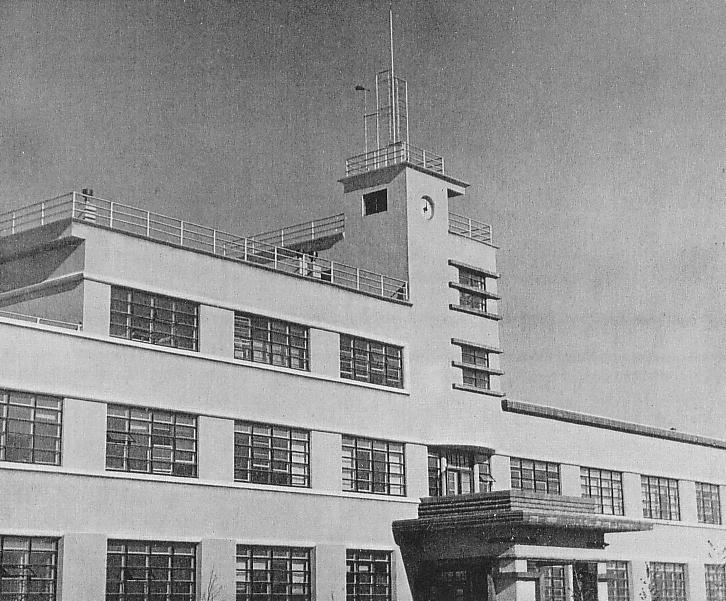 Karafuto Prefectural Central Service Facilities for Research